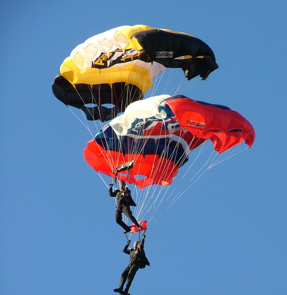 Army paratroopers make history by conducting the first combined paratrooper demonstration featuring five different commands (USASOC Black Daggers, Army Golden Knights, 101st Airborne Screaming Eagles, 82nd Airborne All-American Freefall Team and the Fort Benning Silver Wings) during pre-game ceremonies at the Bell Helicopter Armed Forces Bowl in Fort Worth, Texas Dec. 31, 2008.